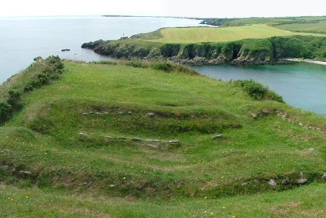 View from Cronk ny Merriu Cronk ny Merriu is a coastal promontory fort with defensive ditch and rampart. The high ground location offers good views of the surrounding coast. Atlas of Hillforts number 3224 Behind the fort are the remains of a homestead. Originally believed to have been built in the Celtic Iron Age it was later re-occupied during the Norse Period. The site has a building nearly rectangular in construction with three doorways and a standard Norse central hearth.